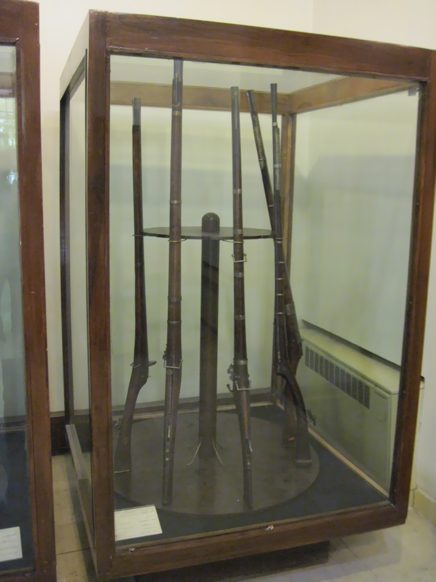 Guns - Safavid dynasty-17AD